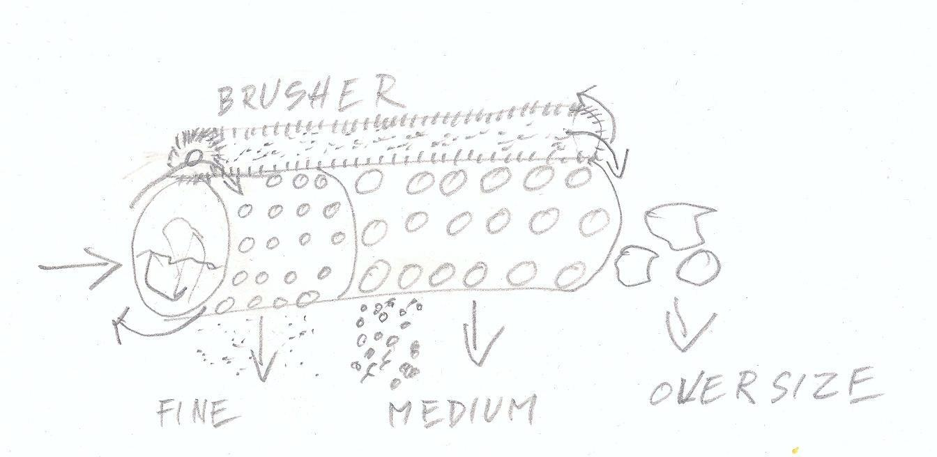 Schematic drawing of a trommel screen.